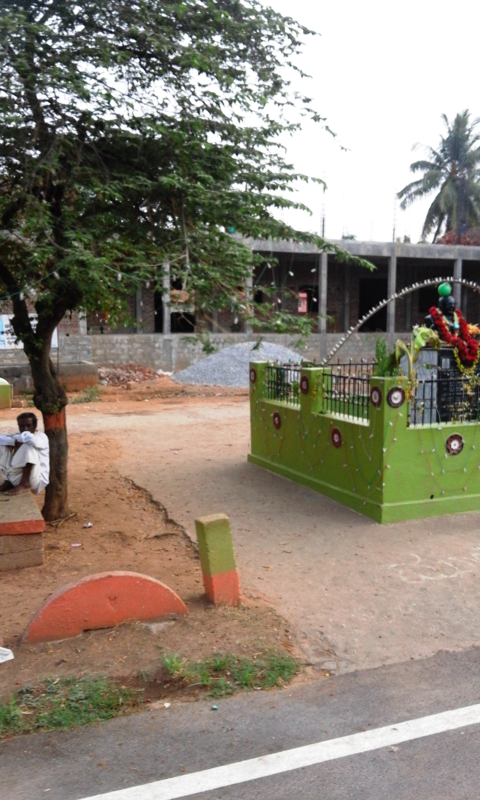 Mananthavady Road, Mysore district, Karnataka province, India.